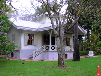 The mansion of H.M. Queen Sukhumala Marasri within Bang Pa-In Palace, Ayutthaya, Thailand